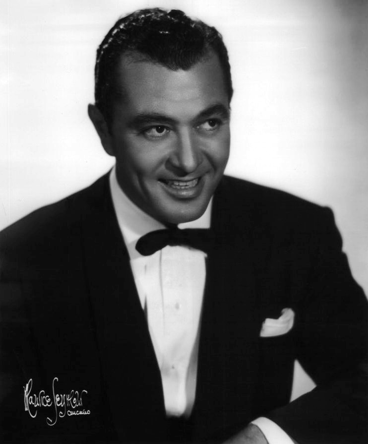 Photo of Tony Martin.